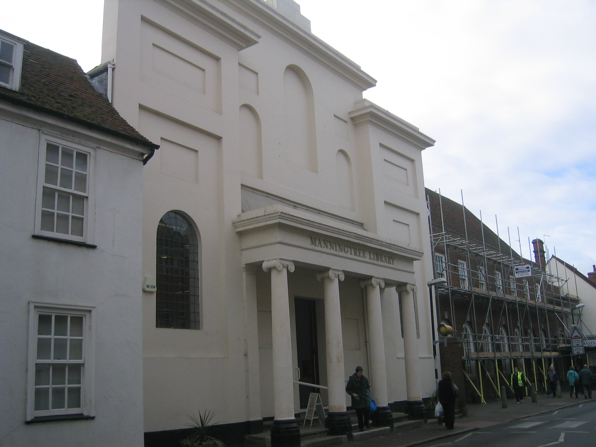 Deben Dave (talk) 22:01, 7 March 2009 (UTC)